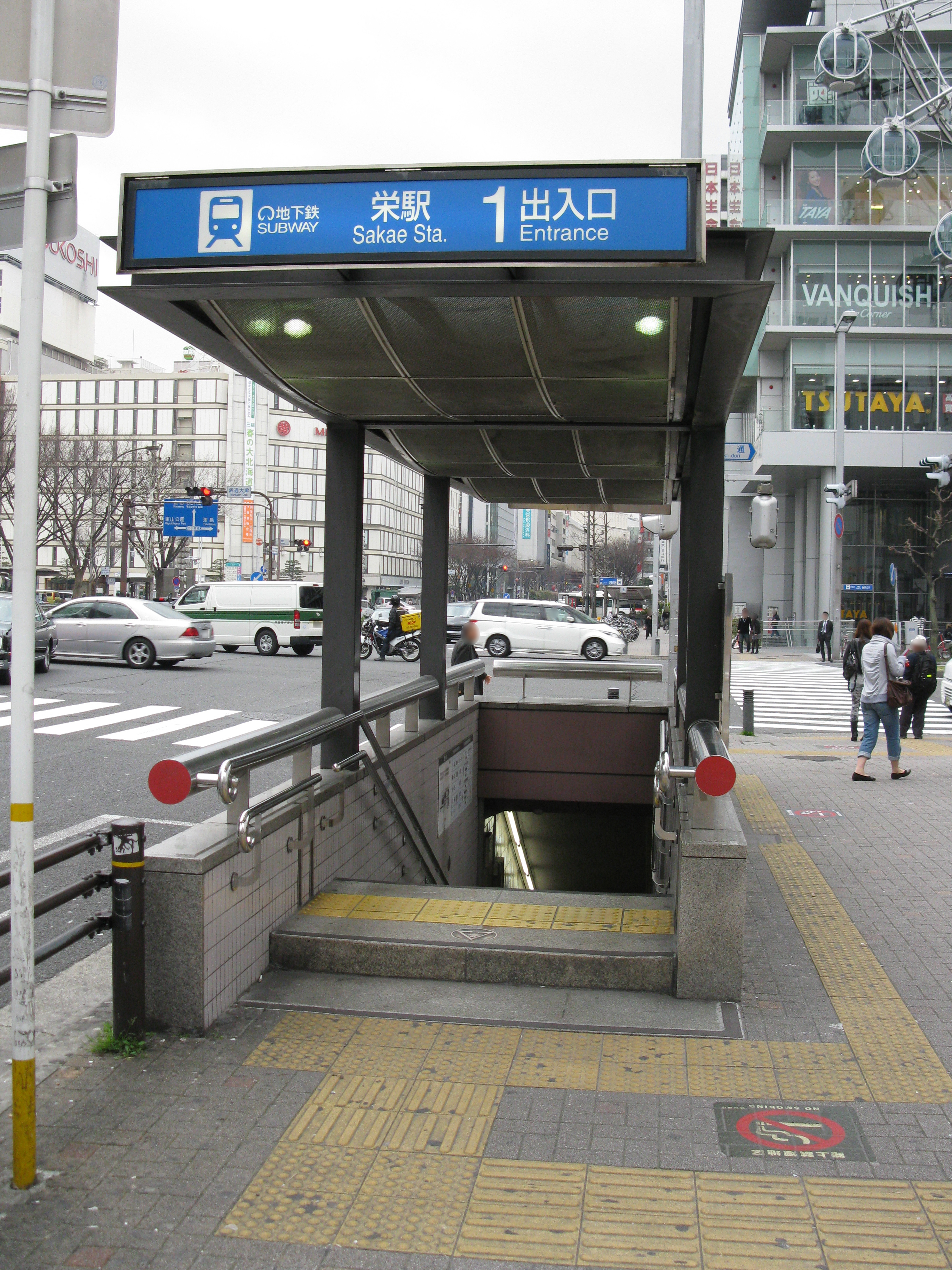 Sakae Station no.1 entrance (Nagoya Municipal Subway Higashiyama Line, Meijō Line)